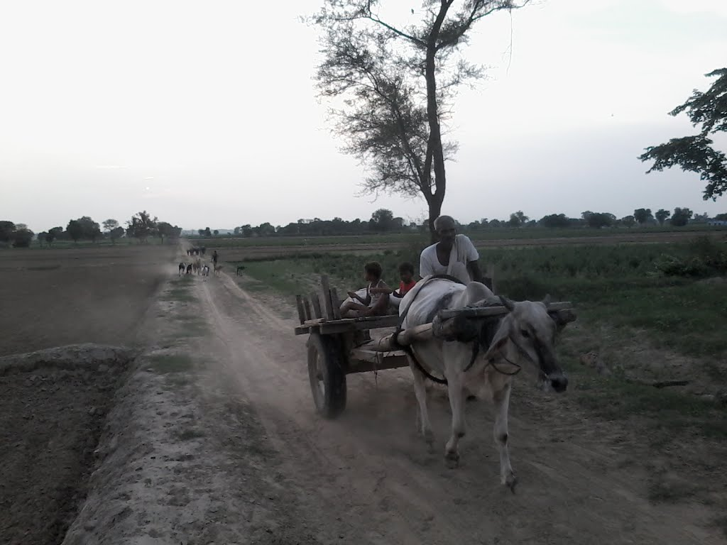 a farmer coming from his fields with bullock cart